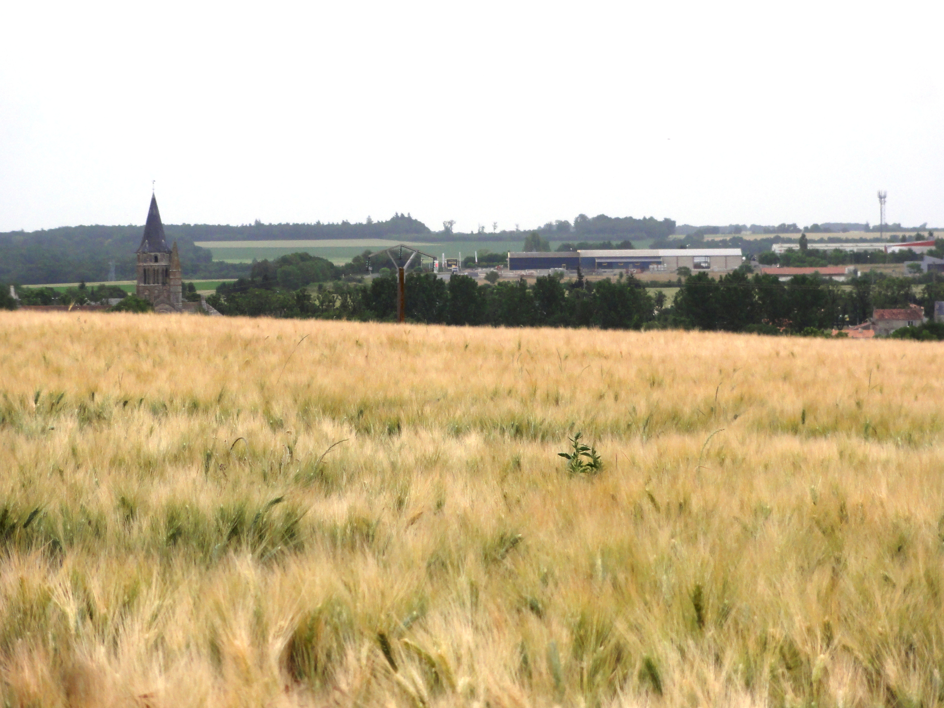 Aulnay-de-Saintonge, paysage avec vue sur le bourg